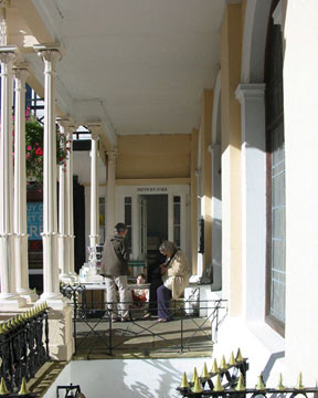 Pantiles - The Chalybeate springs